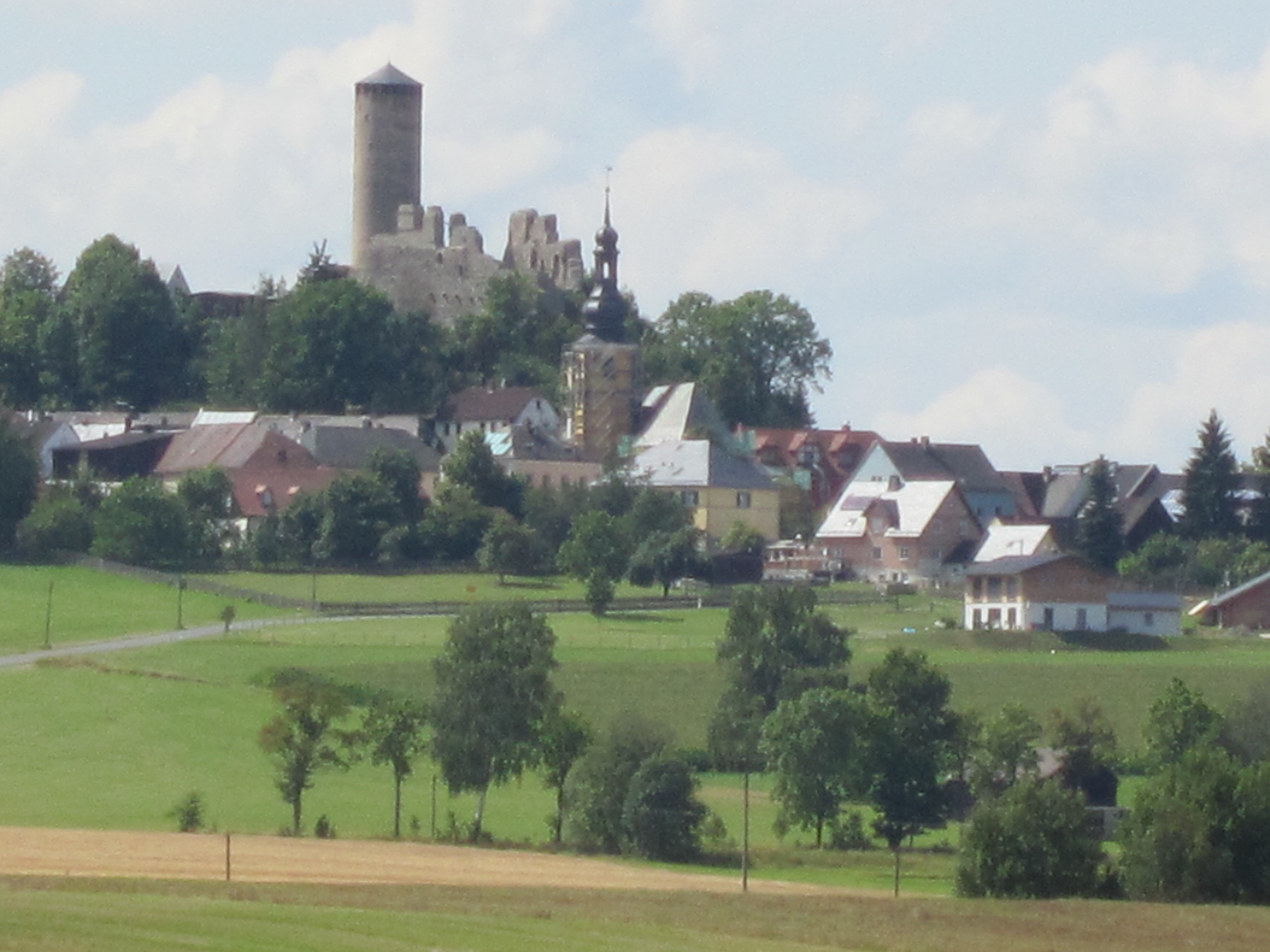 Panoramic view to Thierstein / Fichtelgebirge (direction west)